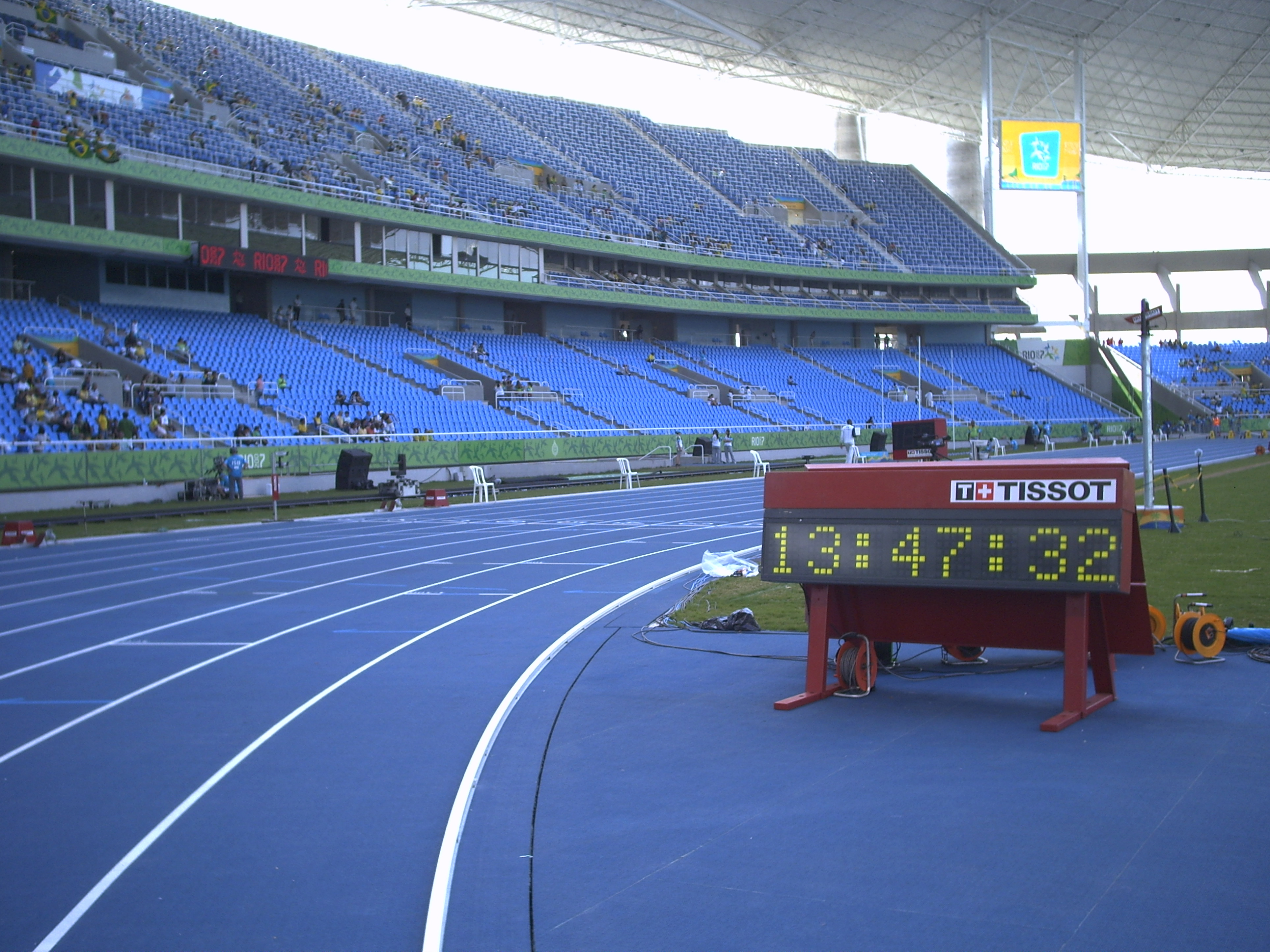 The finish area at Joao Havelange Olympic Stadium, in Rio de Janiero, Brazil set up for the 2007 Pan American Games